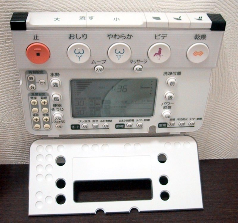 This is a wireless toilet control panel for a japanese toilet with 38 buttons. The model is a high-end model photographed in a Toto showroom. Normally, many of the buttons are covered with the lid, that is currently in a lowered position, so in normal operation the user has to choose only among 18 different buttons. See also Image:WirelessToiletControlPanel.jpg for a less sophisticated model and Image:JapaneseToiletControlPanel.jpg for a very basic model. 1: 大 (ookii, big) causes to a large flush for large size waste (大便, daiben, feces) 2: 小 (chiisai, small) causes a small flush for small size waste (小便. shonben or shouben, urine). 3: Lowers the seat and closes the lid 4: Lowers the seat and raises the lid 5 Raises both the lid and the seat 6: Stops all operations 7: おしり(oshiri, Butt): Washing of the anus, hardcore mode 8: やわらか (yawaraka, tender): Washing of the anus, soft mode 9: ビデ: (Bide, Bidet): Washing of the vulva. 10: 乾燥 (kansou, dry): Blow dryer for drying the private parts 11: ムーブ （入/切）(Muubu, Move): Rotates the nozzle sideways back and forth 12: マッサージ (入/切) (Massaji, Massage): Cyclic increase in the nozzle pressure for a massage of the anus. Button for On/Off13/14/15: 時刻設定,時/分/セット(clock setting,hour/minute/set)16/17: 温度設定,便座+/-(temp. setting,seat +/-)18/19: 温度設定,乾燥+/-(temp. setting,dry(brow) +/-)20/21: 温度設定,温水+/-(temp. setting,water(for splay) +/-)22/23: 温度設定,室温+/-(temp. setting,room +/-)24/25: 水勢-強/弱(water power,strong/weak)26: 便器そうじ,入/切(toilet cleaning,on/off)27: ノズルそうじ,入/切(nozzle cleaning,on/off)28: オート,プレ洗浄,入/切(auto,pre-cleaning on/off)29: オート,流す,入/切(auto,flushing on/off)30: オート,ふた開閉,入/切(auto,cover open-close on/off)31: 節電,おまかせ節電(power saving,auto powersave on/off)32: 節電,タイマー節電(power saving,timer powersave on/off)33/34: 洗浄位置,前/後(washing position,front/back)35: パワー脱臭(power deodorization)36: 室温,室温,入/切(room temp.,on/off)37: 室温,冷込防止,入/切(room temp.,cold prevention,on/off)38: 室温,タイマー,入/切(room temp.,timer,on/off)